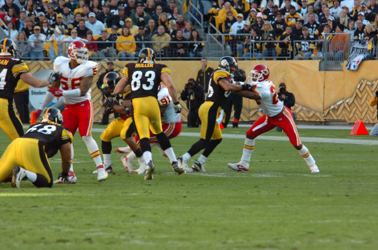 Heath Miller of the Pittsburgh Steelers blocking during a 2006 game